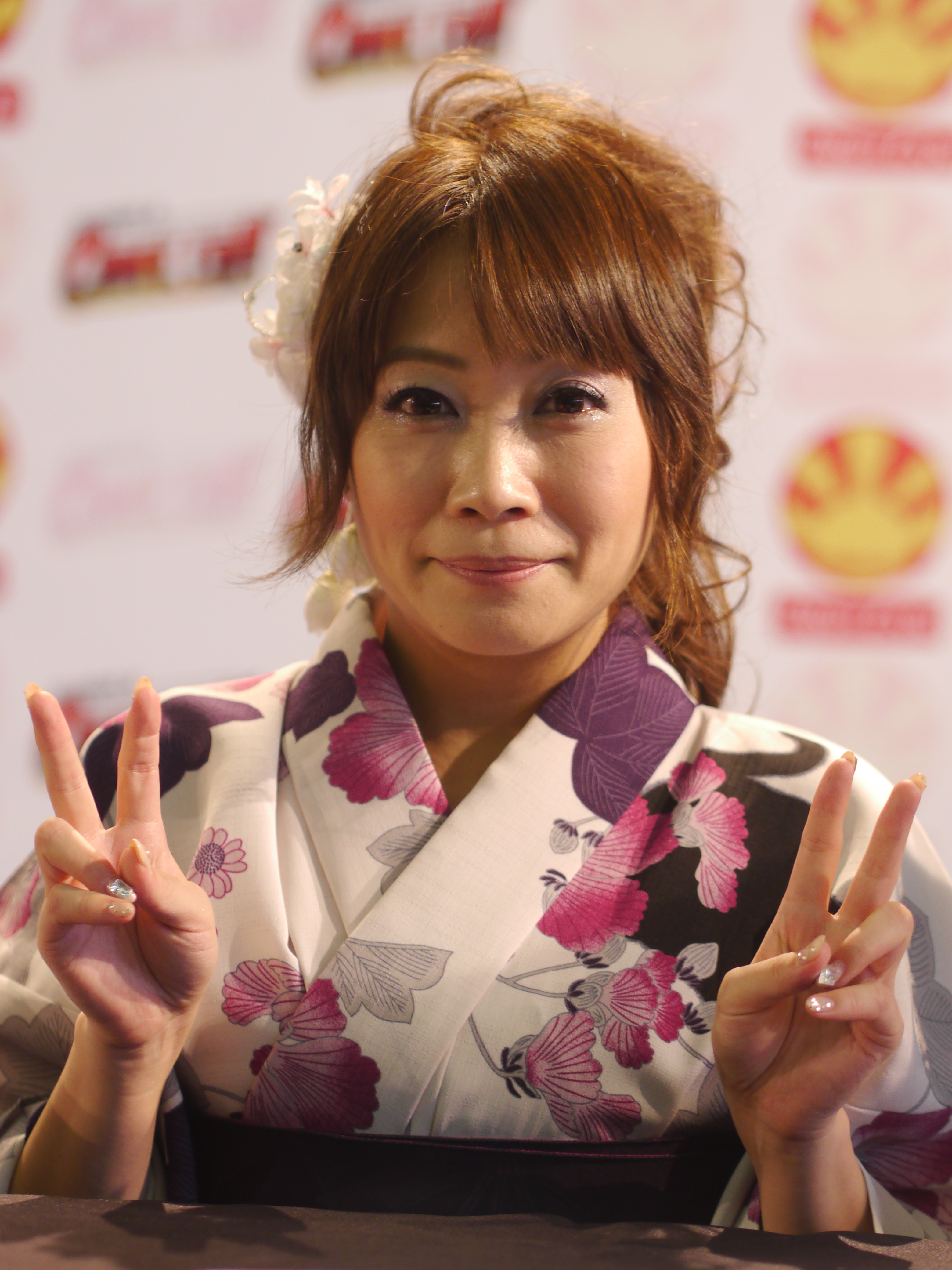 Japan Expo Festival, 14th impact